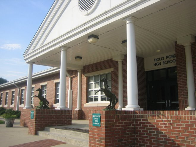 Front of Holly Pond High School in Holly Pond, Alabama, USA.